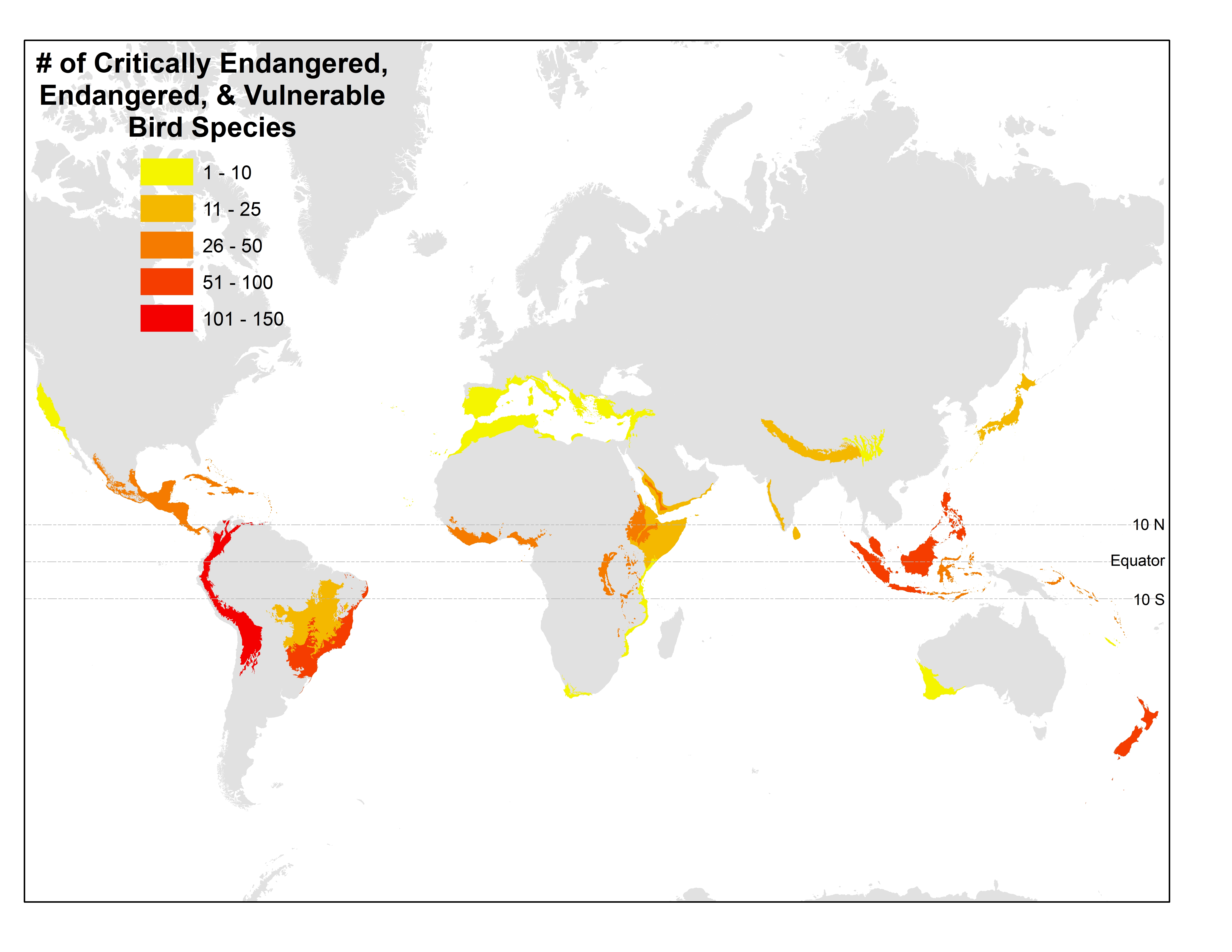 Map shows biodiversity "hotspots" as defined by Conservation International, with color coding indicating number of Critically Endangered, Endangered, and Threatened bird species occurring in these areas.